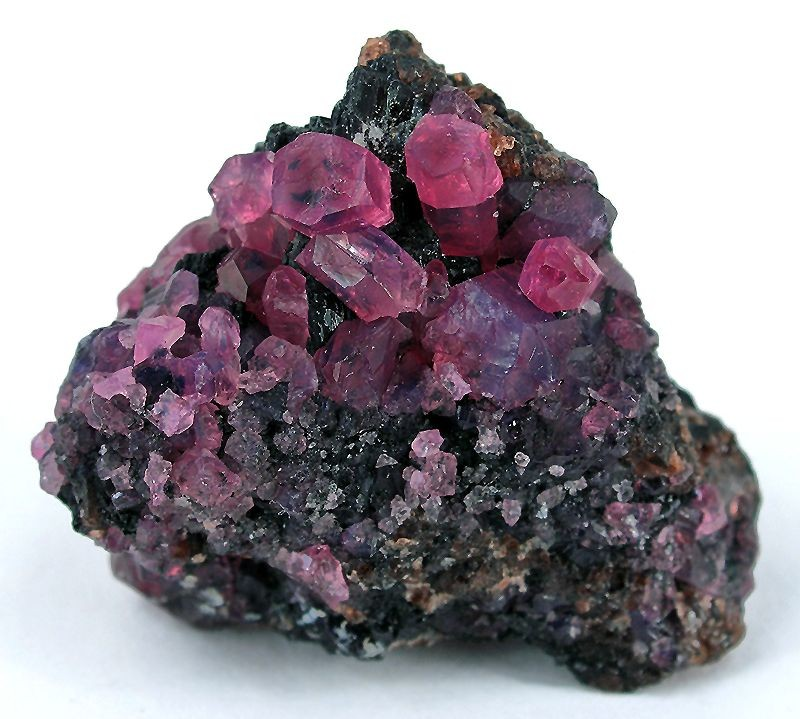 Corundum (Var.: Ruby) Locality: Winza, Mpapwa, Mpapwa (Mpwampwa) District, Dodoma region, Tanzania (Locality at ) Size: 3.8 x 3.1 x 2.3 cm. Emplaced atop a matrix of gemmy, massive sapphire, are several lustrous and translucent, rose-red ruby crystals, to .7 cm in length. The overall effect of a small flower opening up is very pleasing. These crystals, though small, are gemmy and lustrous.